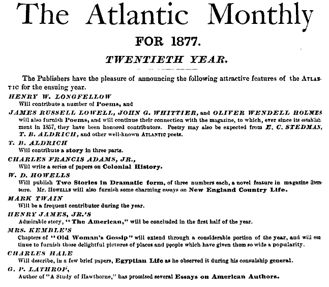 Ad for 1877 Atlantic Monthly